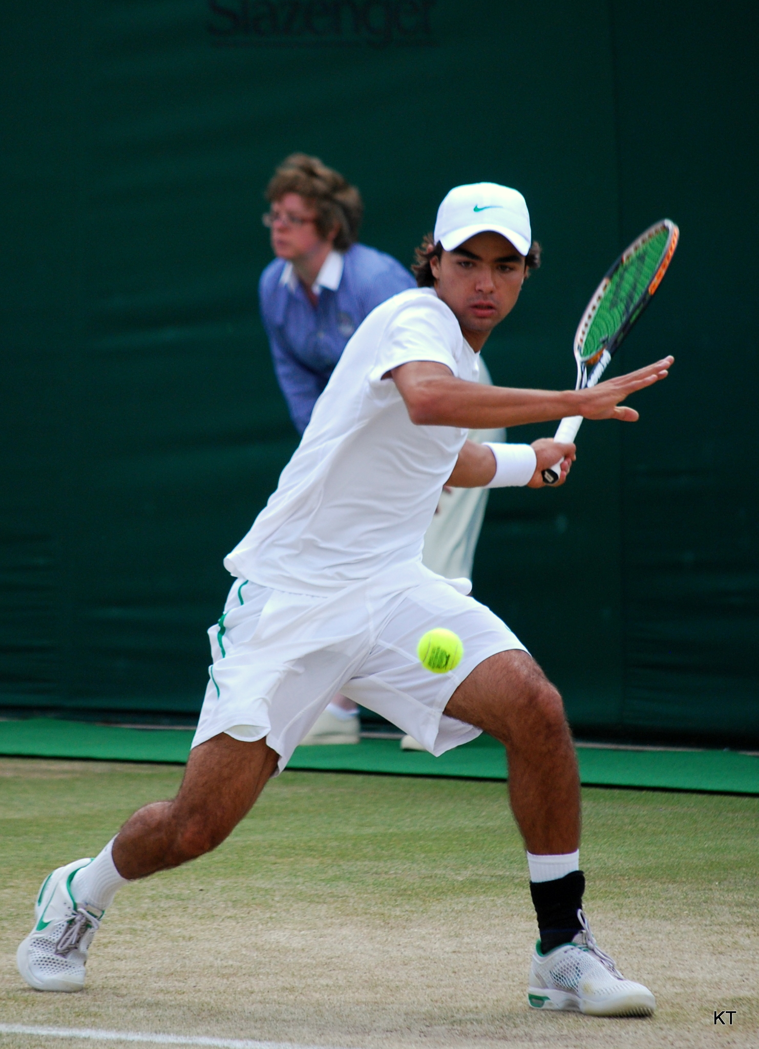 Frederico Silva during his 3rd round match with Mate Pavic on Day 9 of Wimbledon 2011. Pavic won 4-6 6-4 6-3.